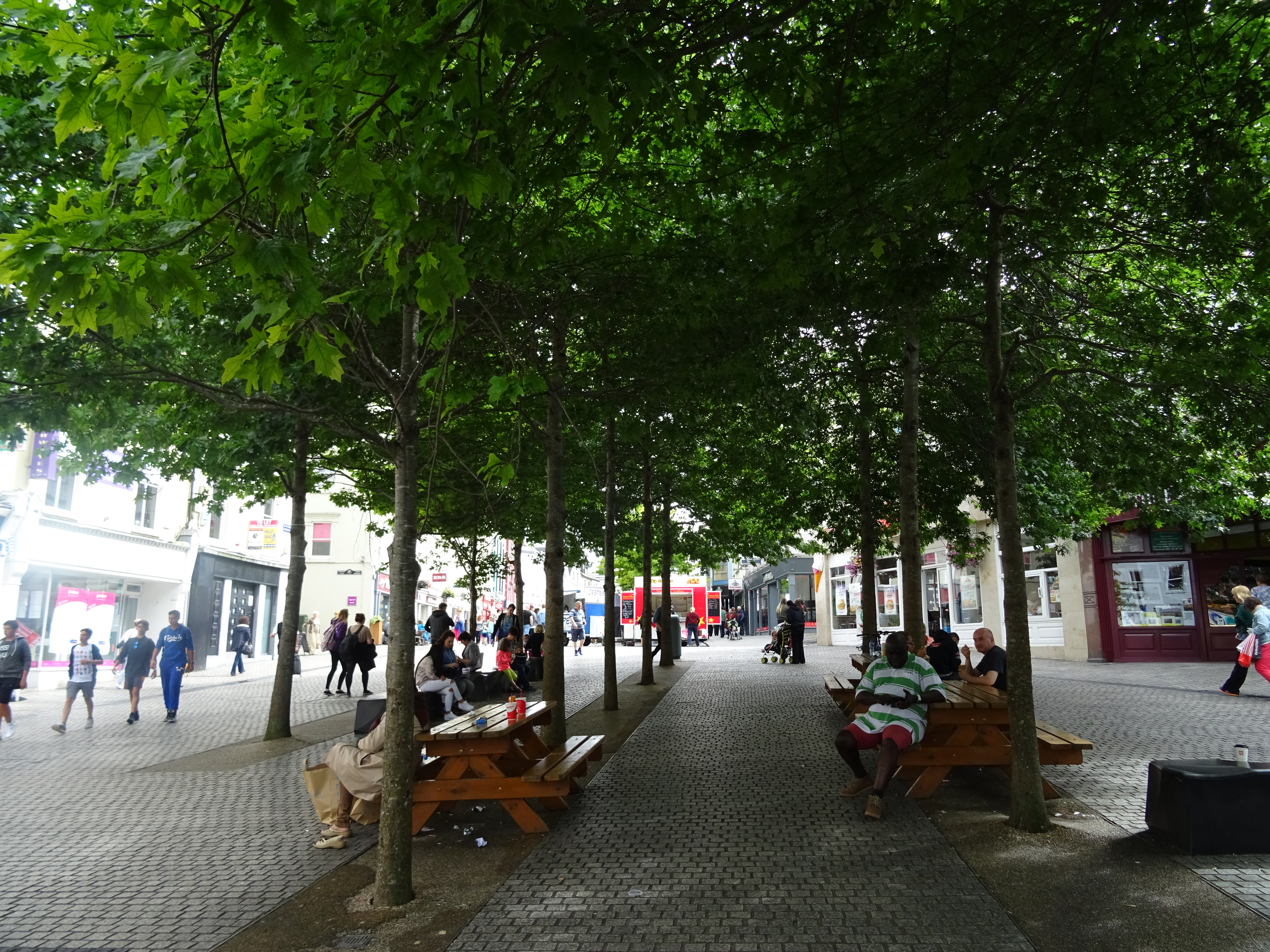 John Roberts Square in Waterford, Ireland.